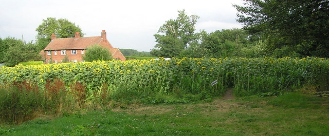 Sunflower Maze. A summer feature at New Moor Farm, home to Archers Jersey Herd, and makers of exquisite ice creams.